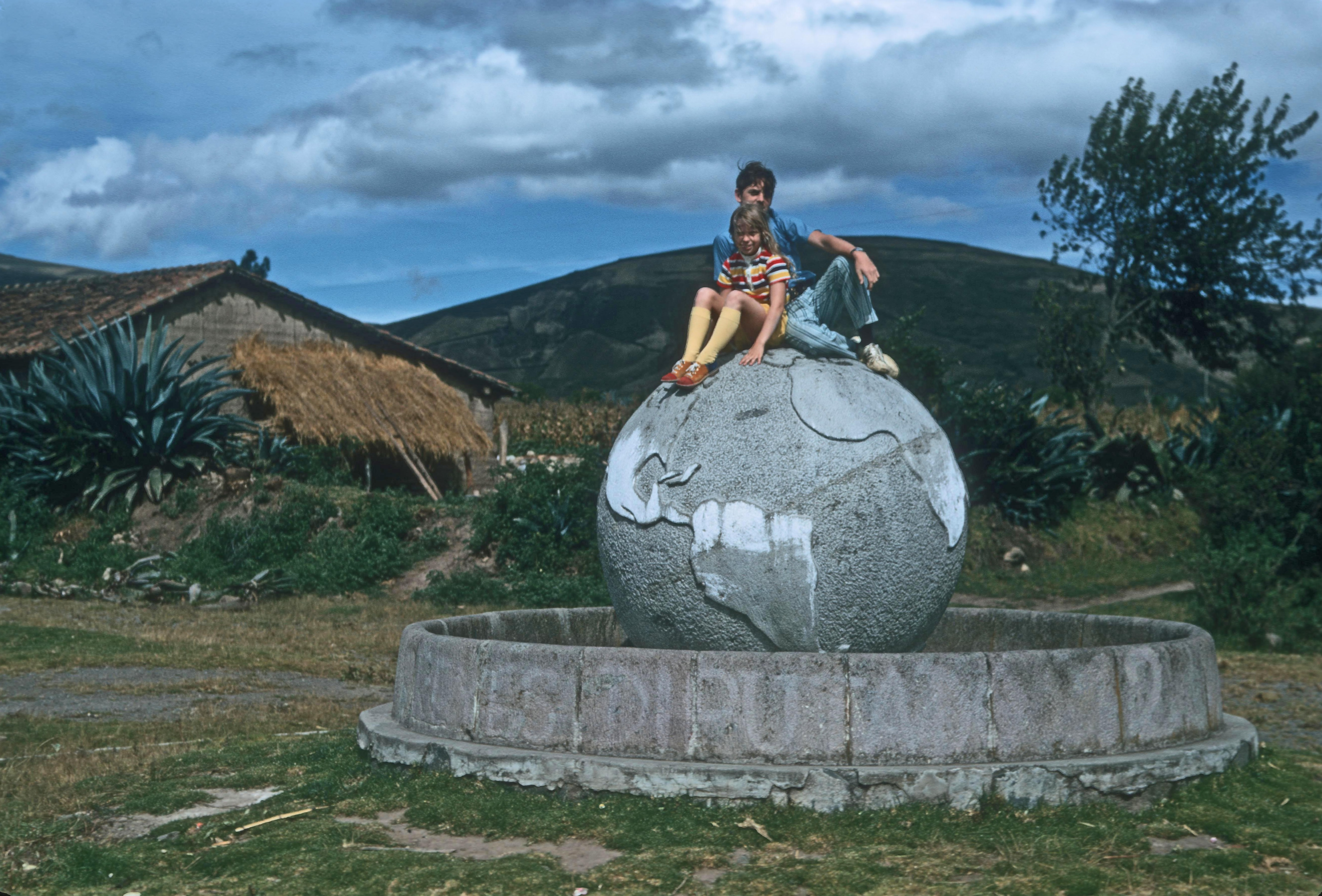 GLOBE MONUMENT, KNOWN THERE AS "LA BOLA" (THE BALL) LOCATED IN THE 46 KM FROM QUITO ON THE PAN AMERICAN HIGHWAY